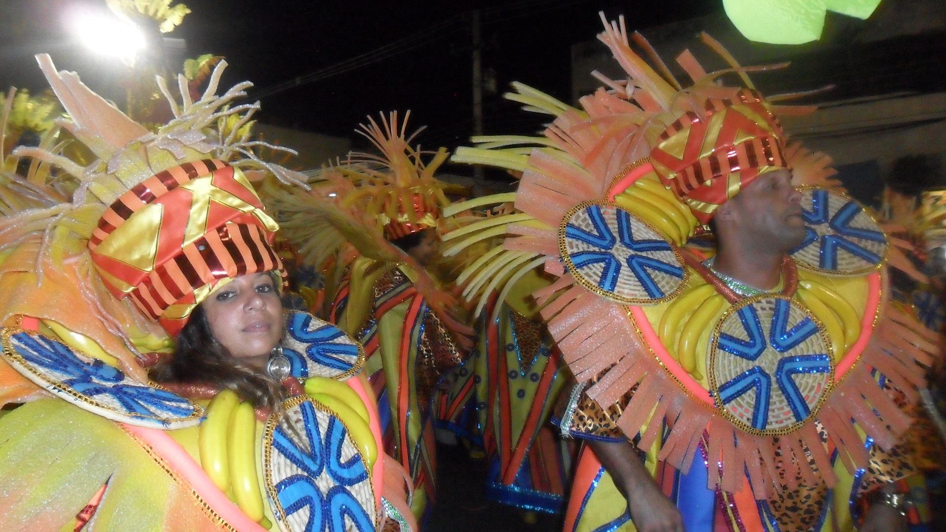 GRES Acadêmicos do Sossego